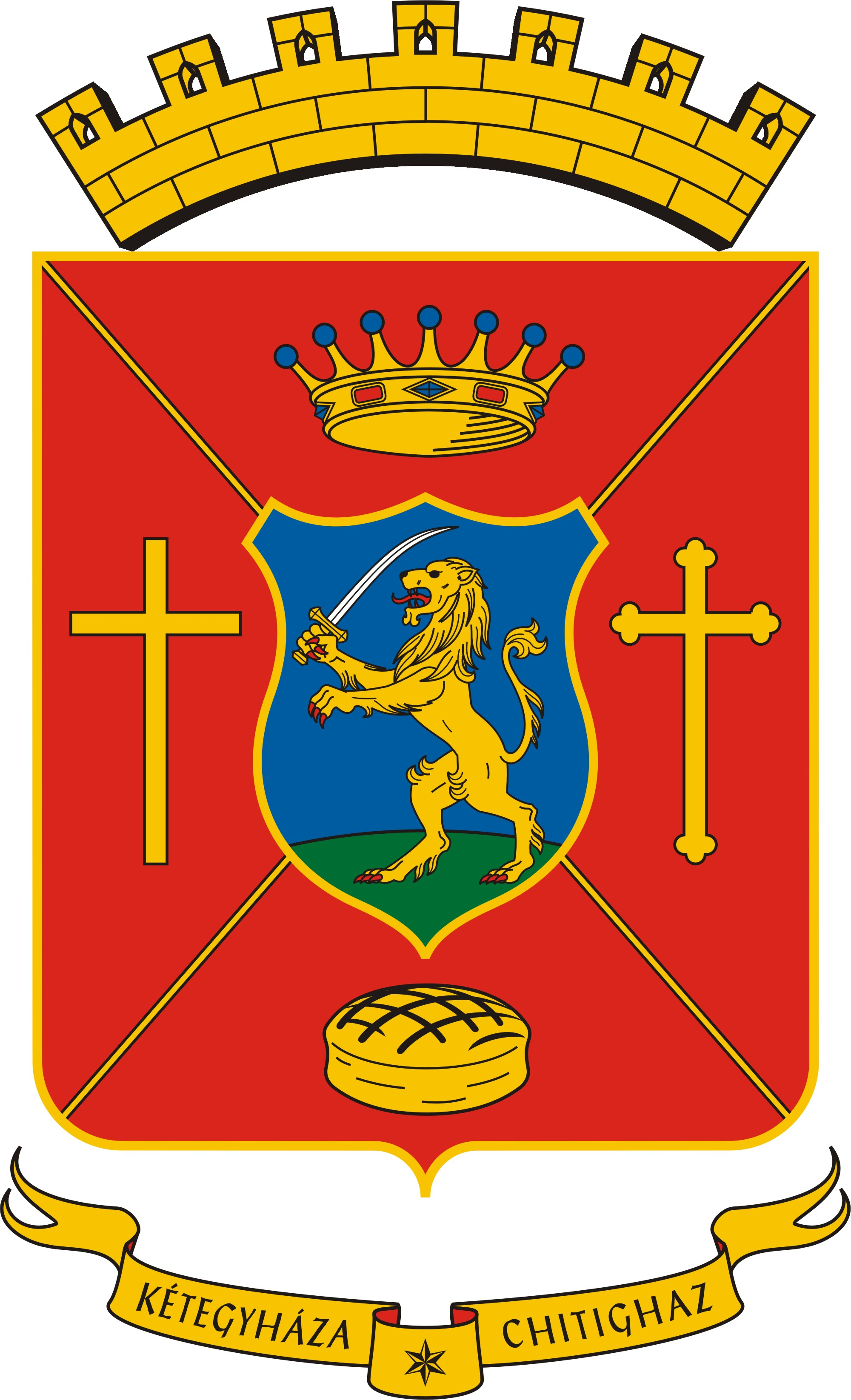 Coat of arms of Kétegyháza, Hungary